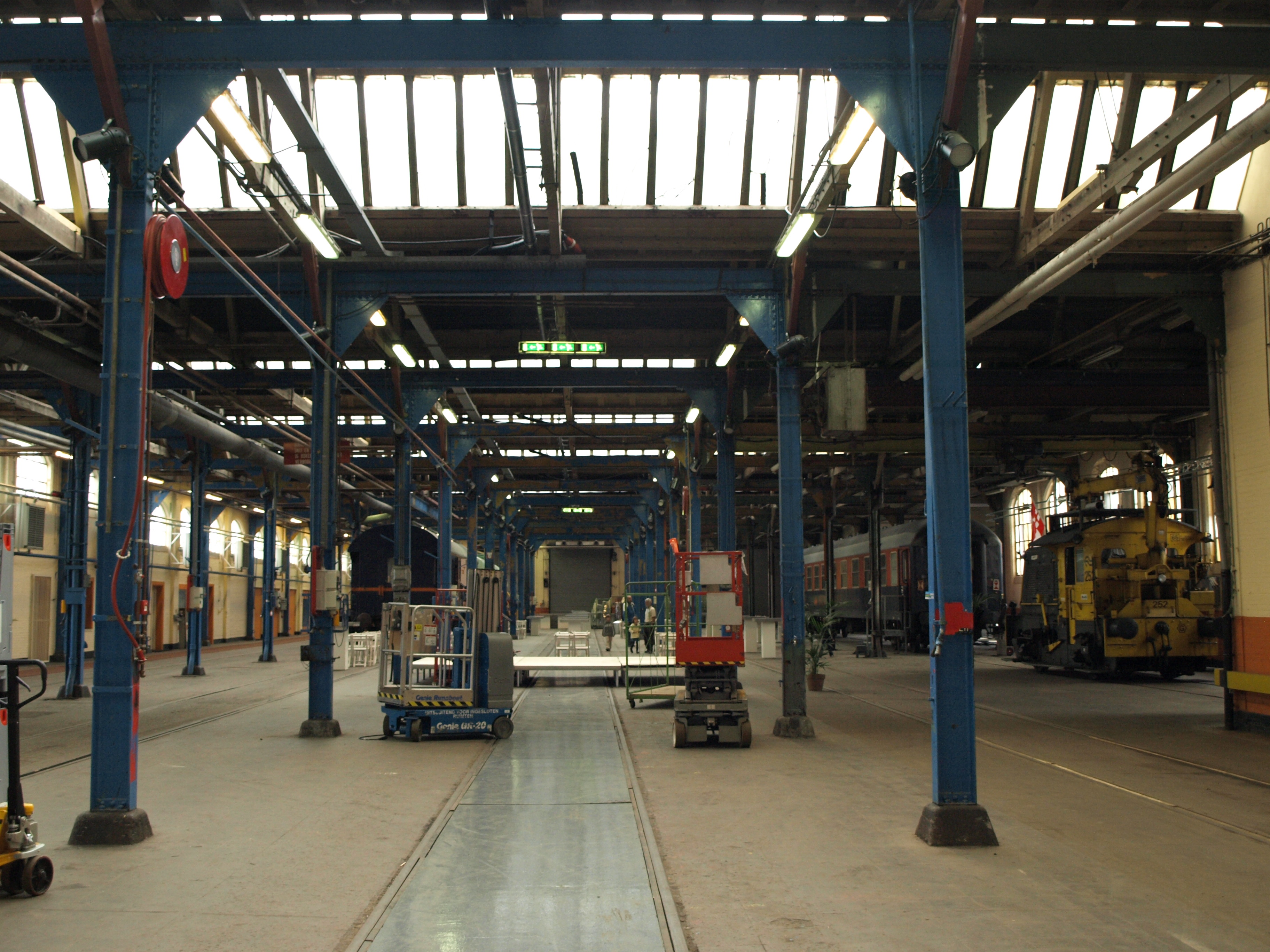 Amersfoort Railway Workshop - interior of one of the renovated buildings